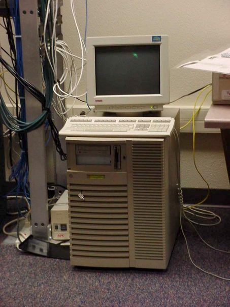 DEC AlphaServer 2000, maybe 4/200 or 4/233. The front panel is missing. Previously it was running VMS, but was later erased. Red Hat Linux 7 for Alpha was installed, and it acted as a file server and web server. External disks were also attached, but are not visible in the photo. Circa 2003.